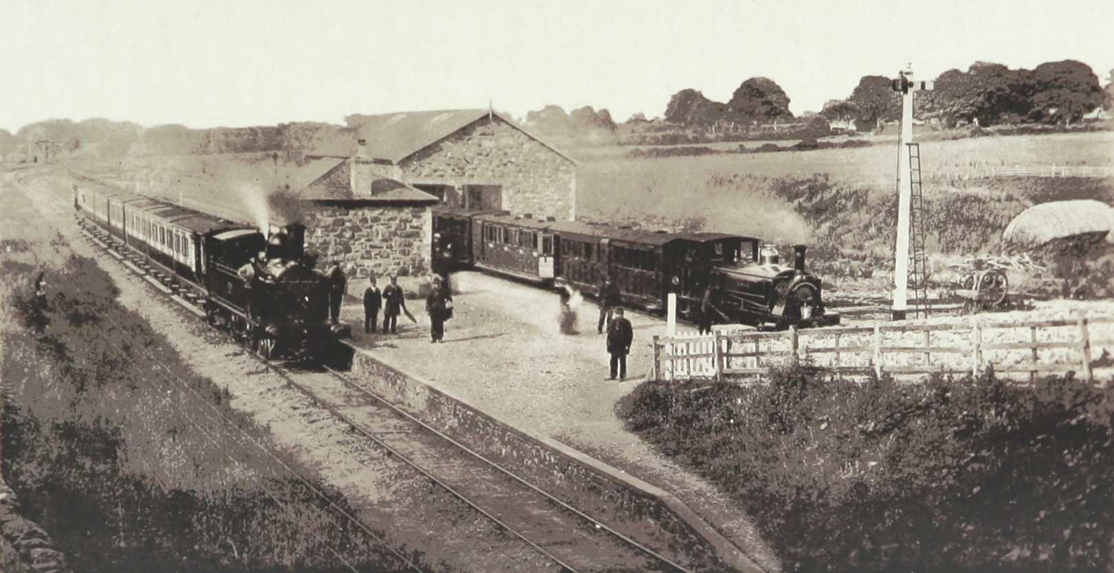 LNWR Dinas station with trains of LNWR and North Wales Narrow Gauge Railways. The narrow gauge engine is 1878 built Hunslet 0-6-4ST "Beddgelert". Publication info: BRITISH LIBRARY Title: "The Short and easy route to Snowdon, via the North Wales narrow gauge railway, etc. (A ... reprint of ... articles ... in the “Liverpool Courier.” 1883-4, on “Picturesque Wales.”) [With photographs.]" Author: THOMAS, Thomas Llewelyn - of Chester Shelfmark: "British Library HMNTS 10347.b.20.(7.)" Page: 13 Place of Publishing: Chester Date of Publishing: 1885 Publisher: T. Ll. Thomas Issuance: monographic Identifier: 003620497